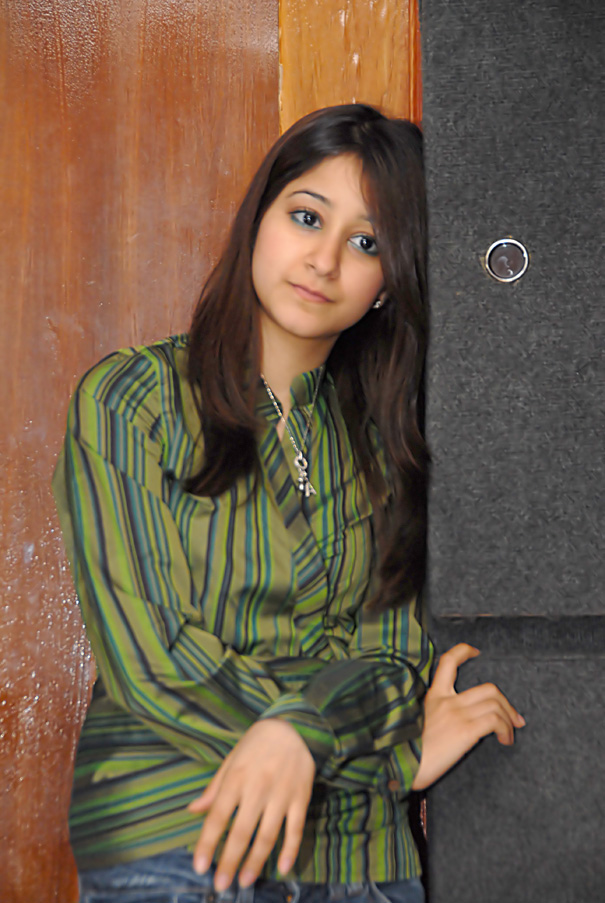 aseel omran is a Saudi Arabian singer that rose to fame when she entered the Reality show Gulf Stars.